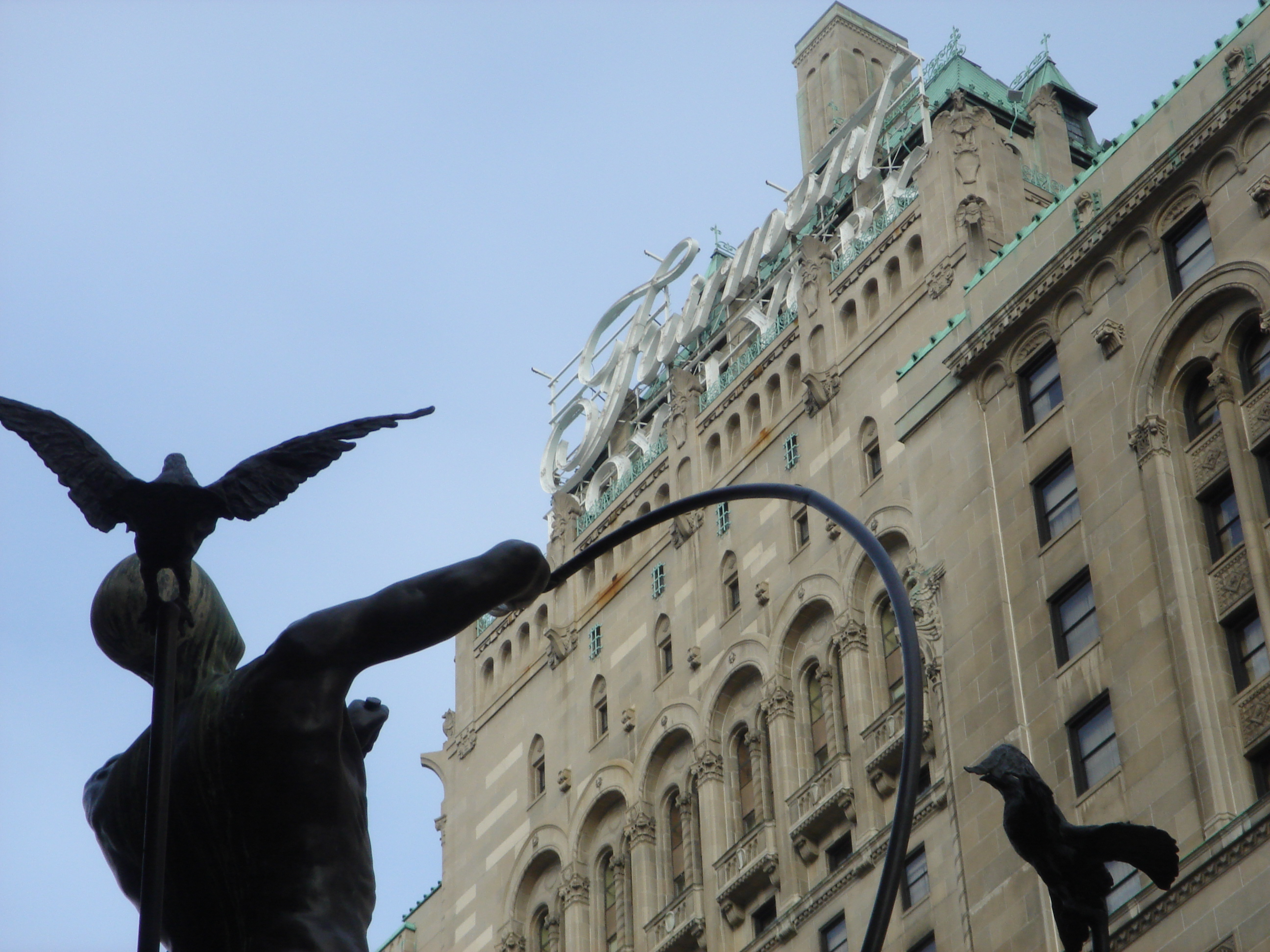 Toronto's fabulous Fairmont Royal York Hotel.